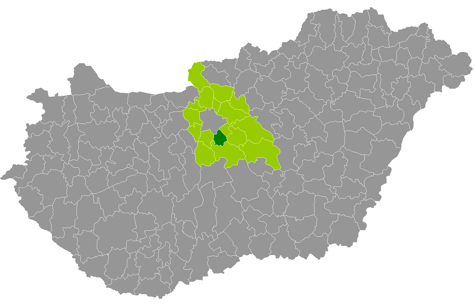 Location of Gyal District, Pest, Hungary